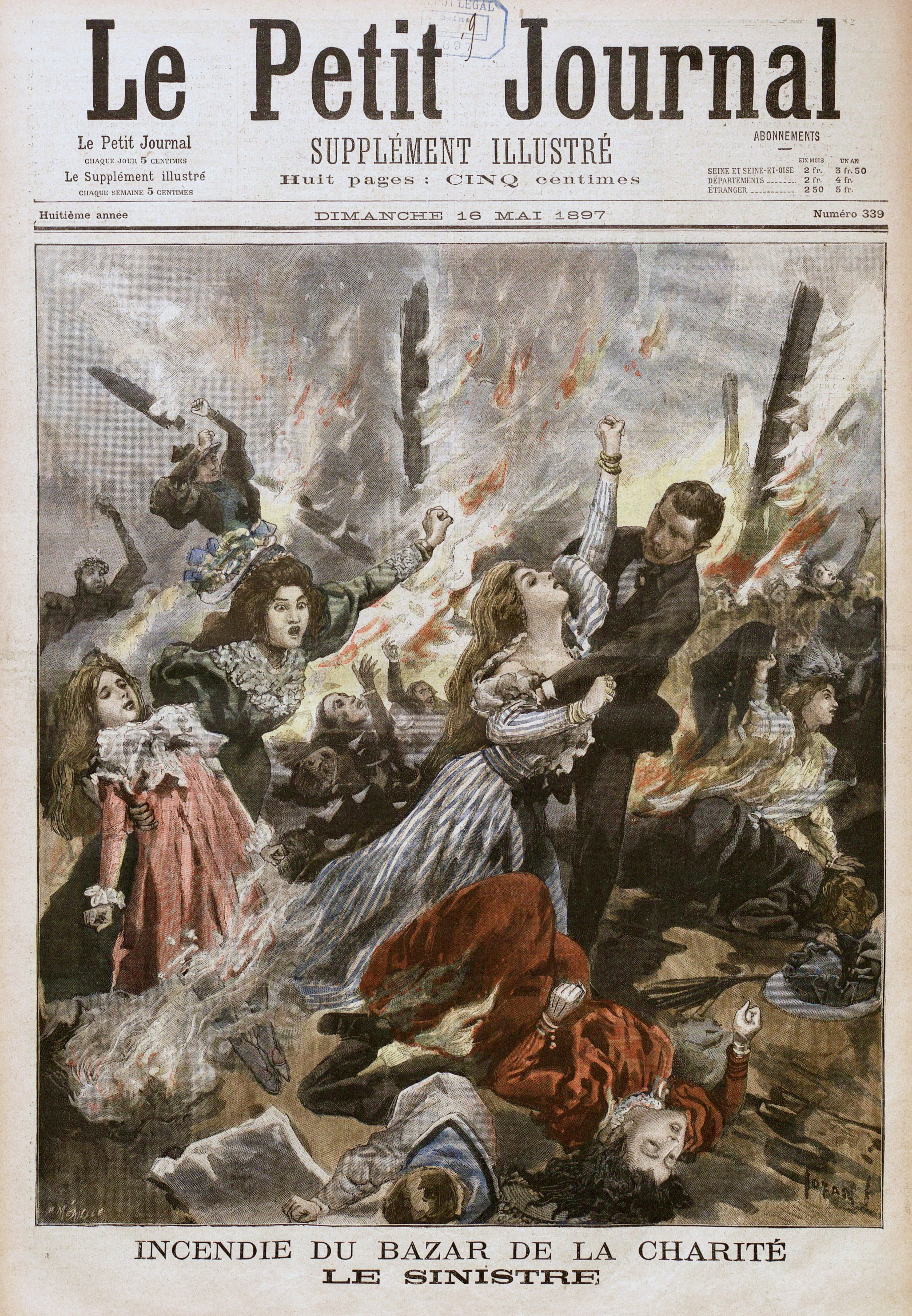 Cover page of Petit Journal, supplément illustré, 16 May 1897, number 339, Incendie du Bazar de la Charité, le sinistre.